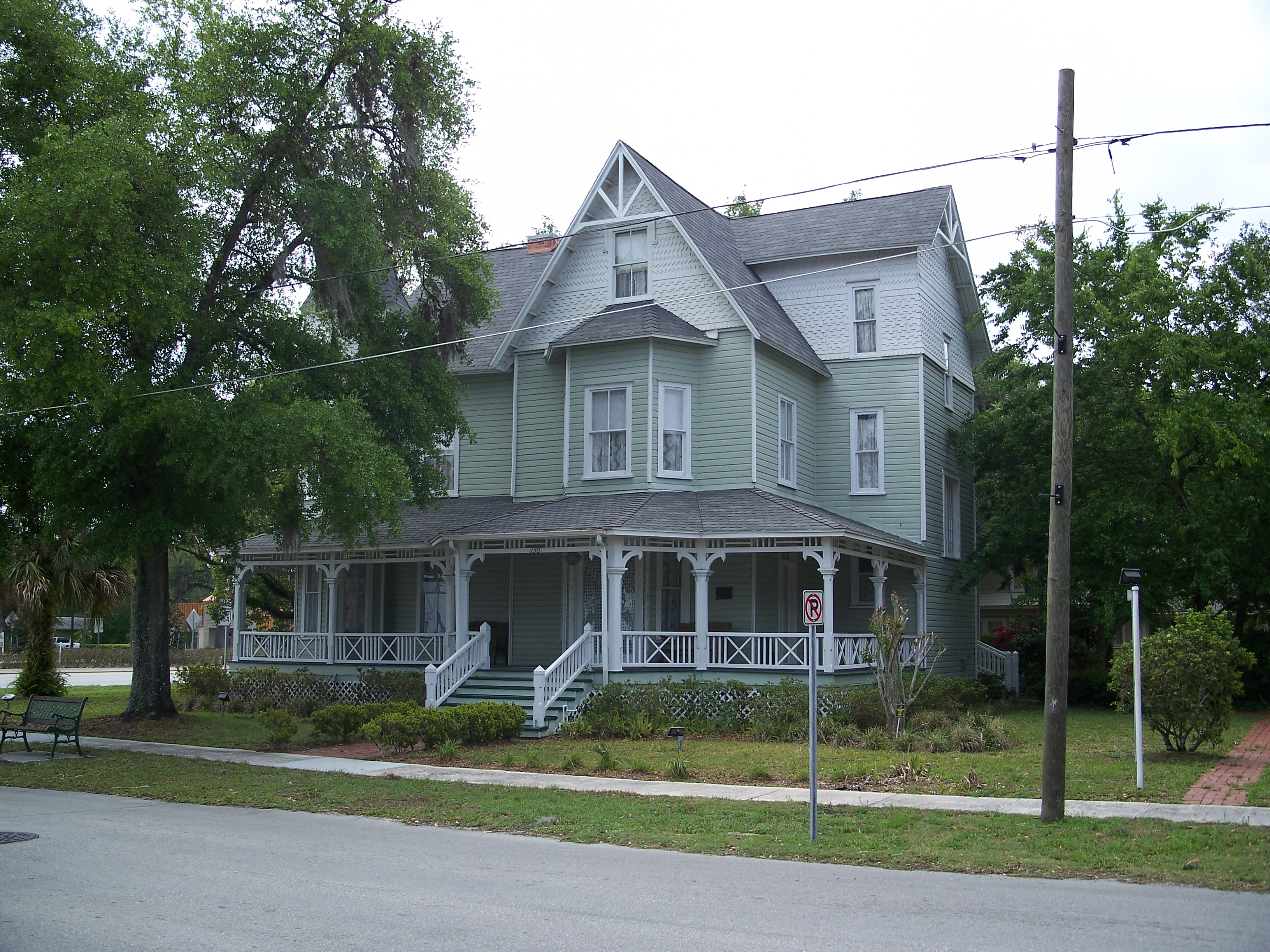 Bradlee-McIntyre House, in Longwood, Florida